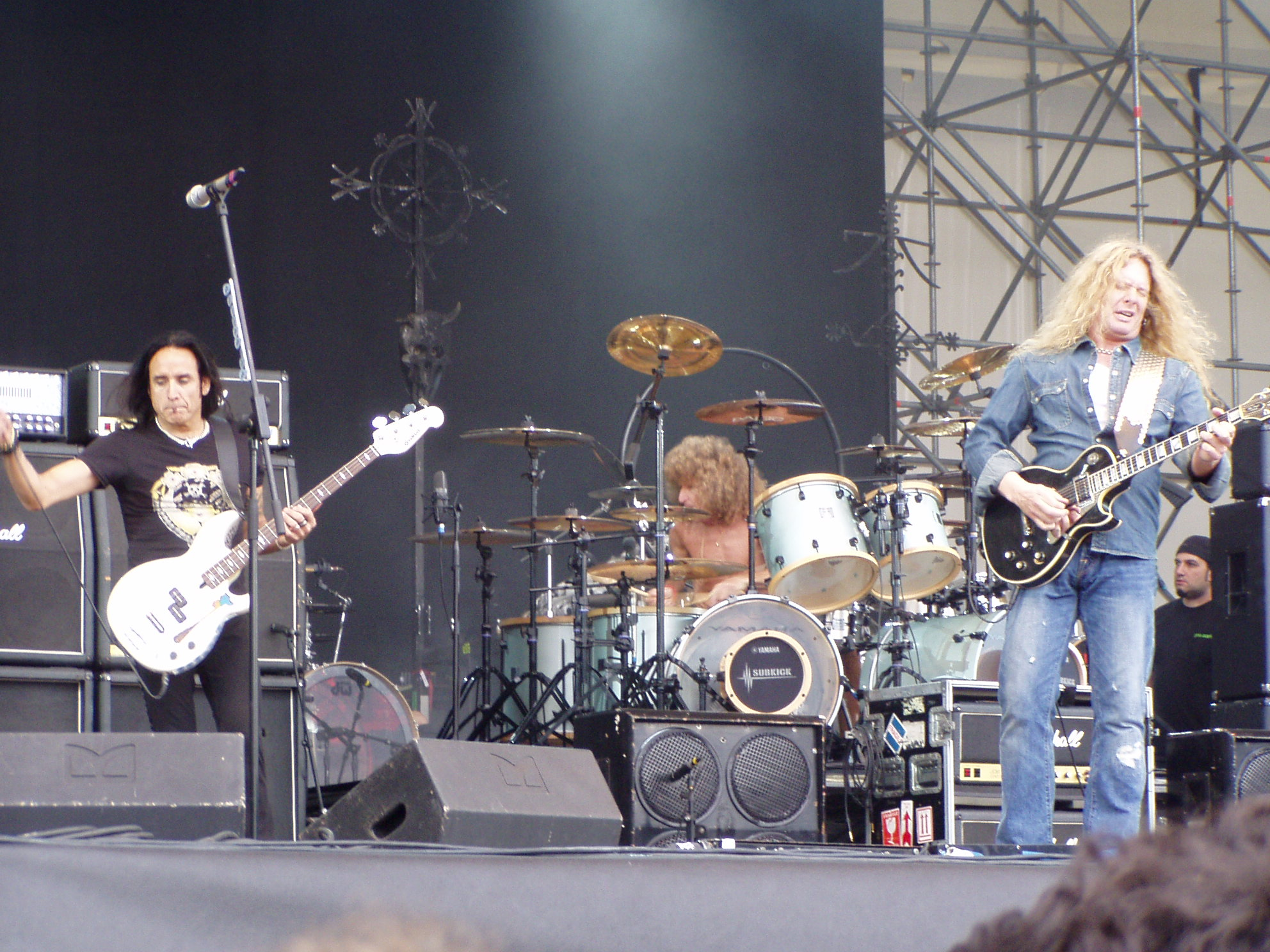 I Thin Lizzy al Gods of Metal 2007